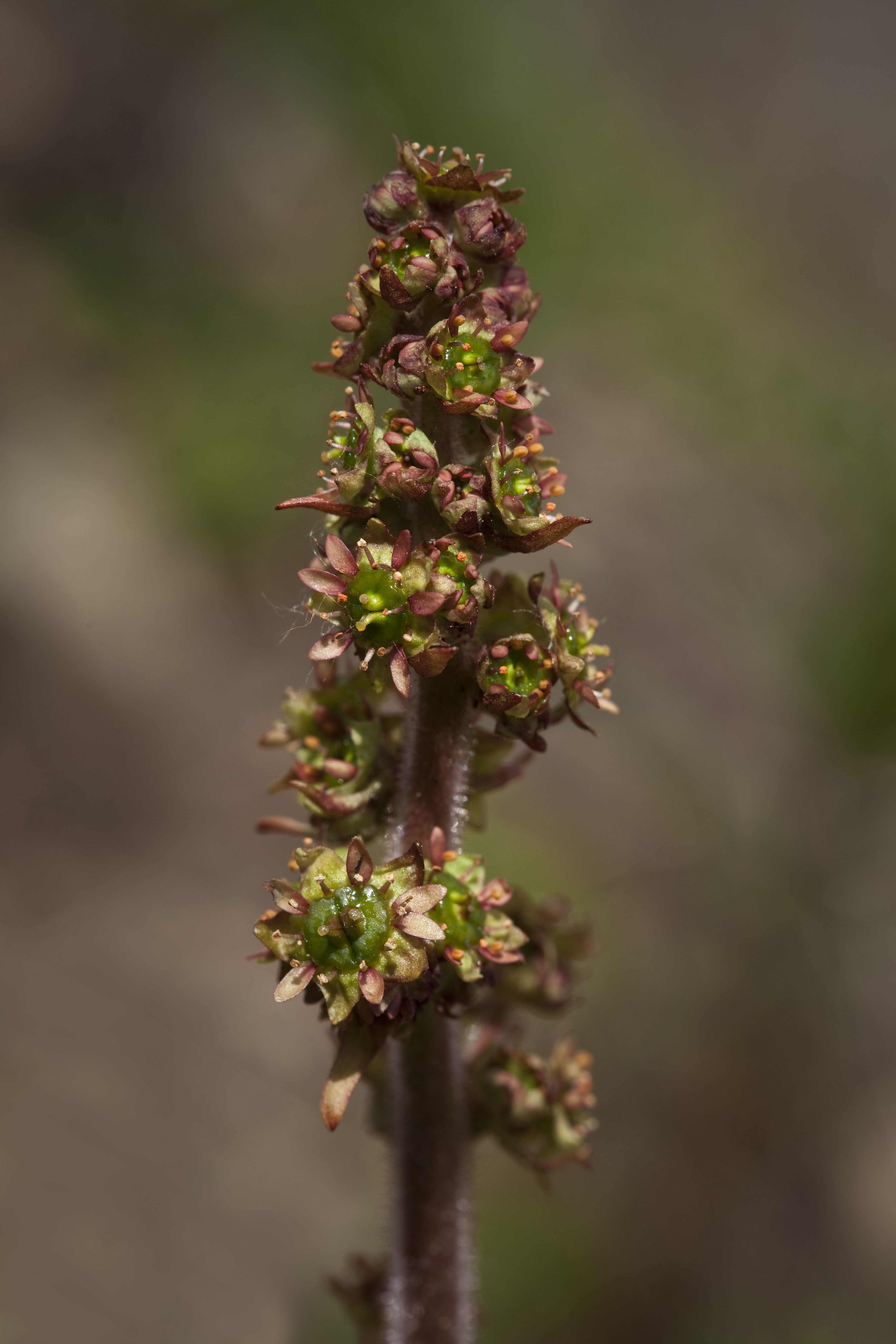 Saxifraga hieraciifolia, Denali National Park and Preserve, AK, USA